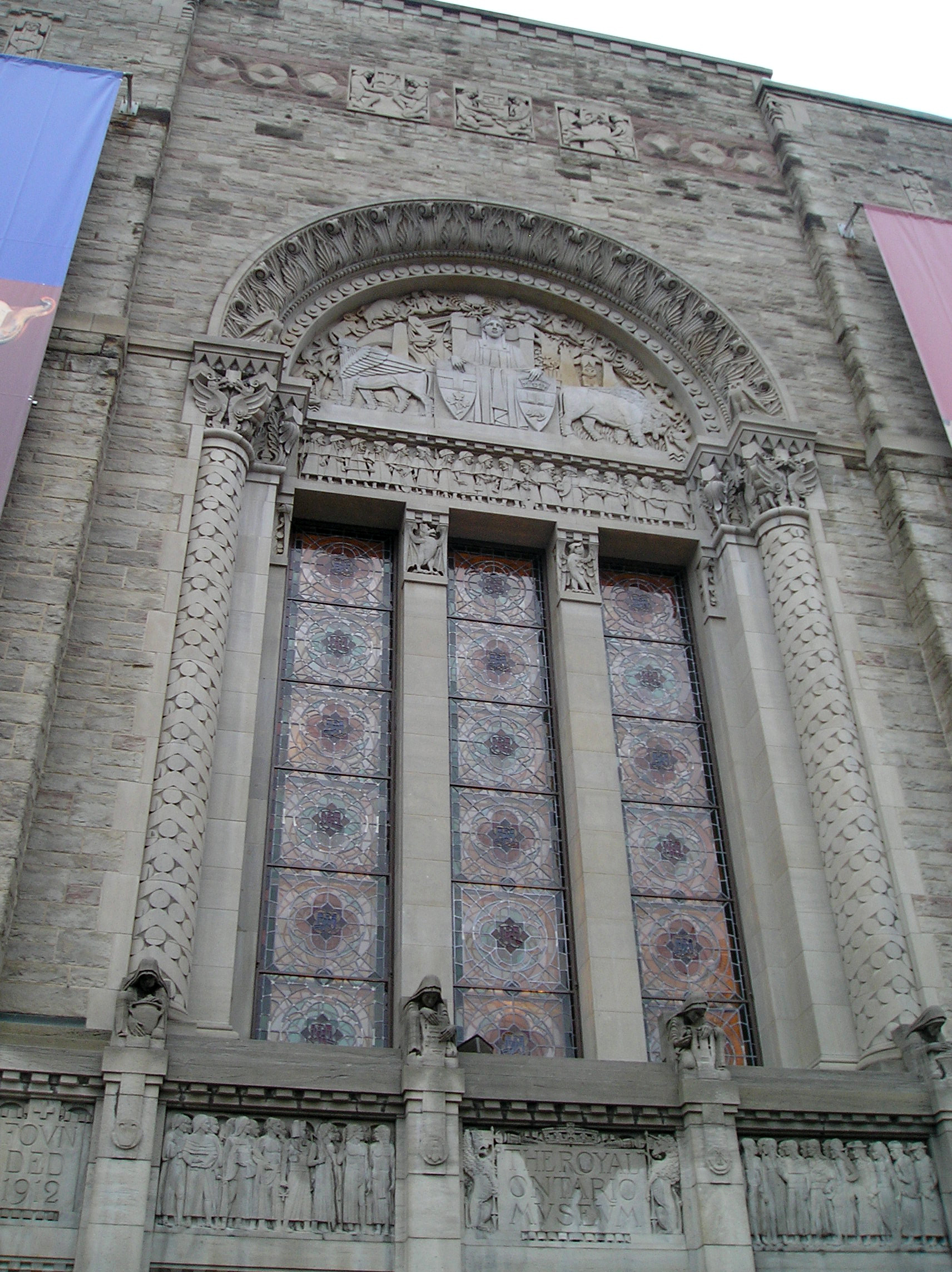 East-facing entrance to the Royal Ontario Museum, Toronto. Picture taken December 29th 2005. Lightly PhotoShop-ed to increase contrast.